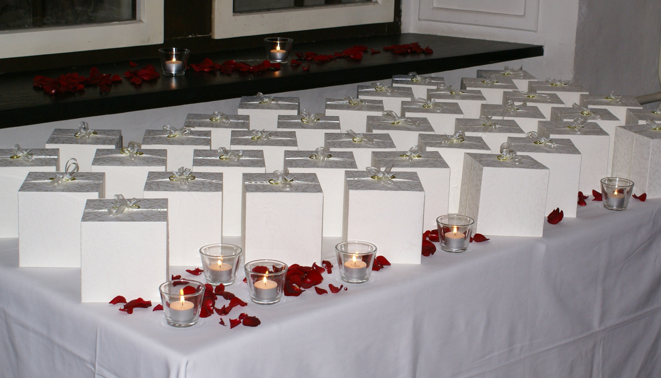 At Italian weddings, the Bomboniera is a traditional gift from the bride and groom to the guests. those gifts are elaborately decorated boxes or paper bags, that usually contains useful small items of china, crystal, silver, or cloth. picture frames, bowls, ashtrays, candle holders and tins as bonbonnière gifts are especially popular.